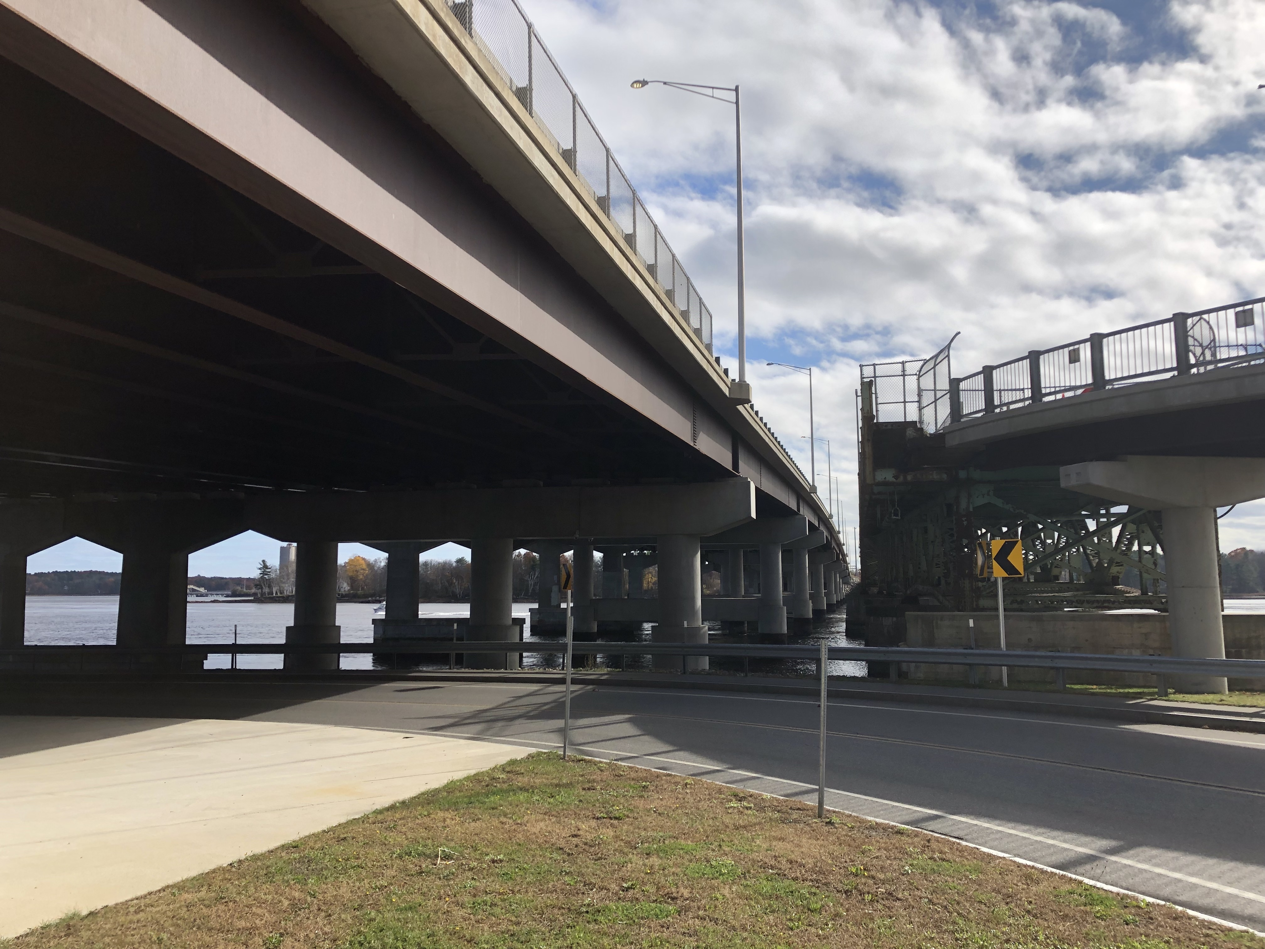 View for under the Little Bay Bridges (left) and General Sullivan Bridge (right) between Dover and Portsmouth, New Hampshire. The Little Bay Bridges carry a concurrency of U.S. Route 4, NH Route 16, and the Spaulding Turnpike across the mouth of Little Bay where it meets the Piscataqua River.